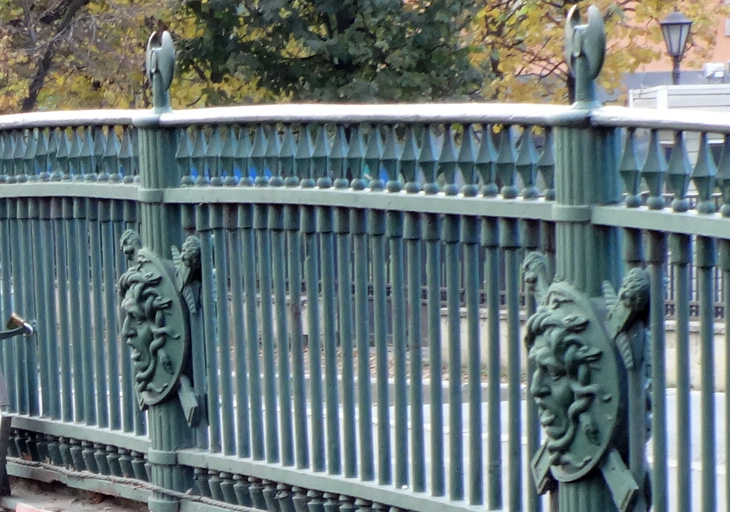 Gorgoneions on the railings of the First Engineer Bridge in Saint-Petersbourg